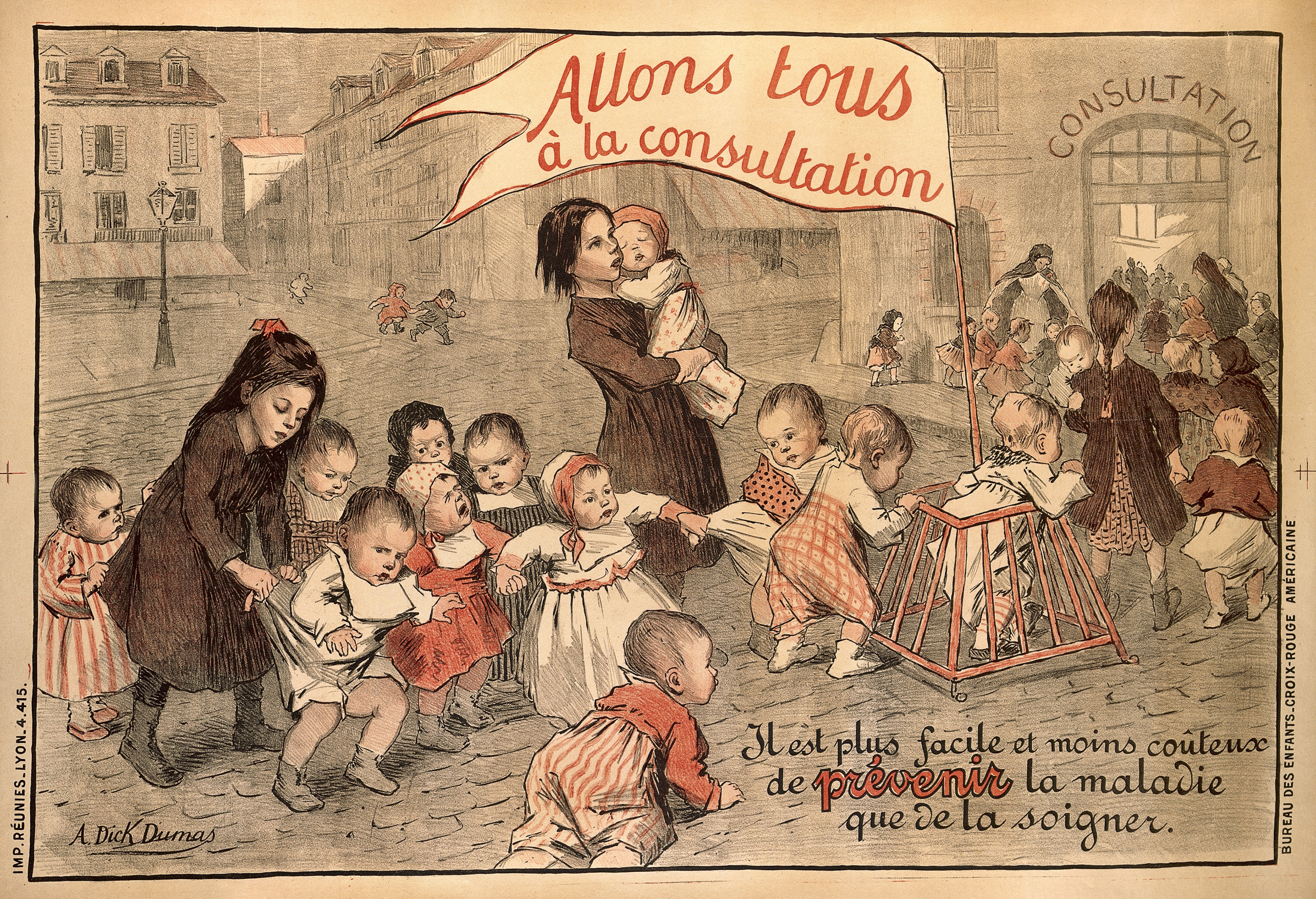 Children going to a clinic for a health check to prevent the advance of disease. Colour lithograph by Alice Dick Dumas. Iconographic Collections Keywords: Tuberculosis; Alice Dick Dumas